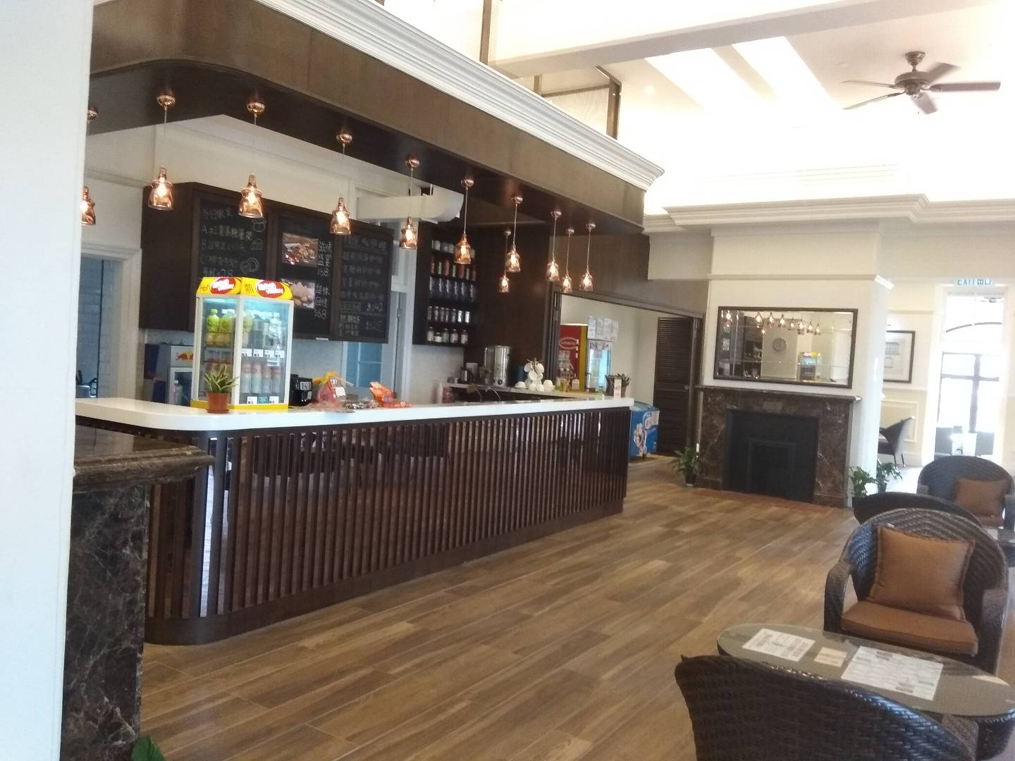 The interior of Block 7 of the Holiday Village after renovation